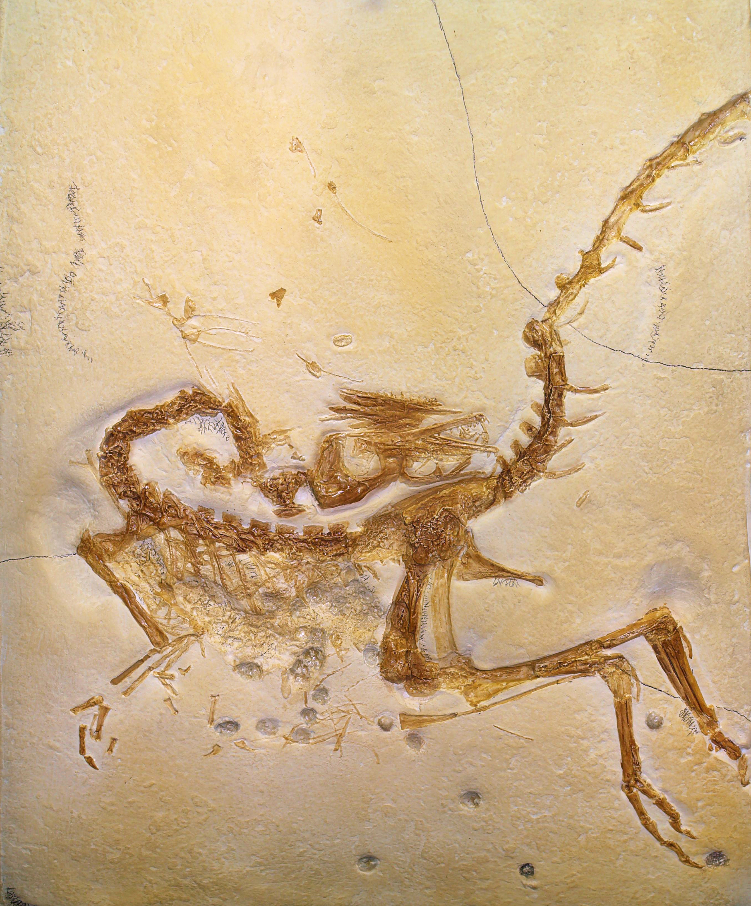 Compsognathus longipes, Compsognathidae, Replica of the Holotype; Upper Jurassic, Solnhofen Plattenkalk; Staatliches Museum für Naturkunde Karlsruhe, Germany.